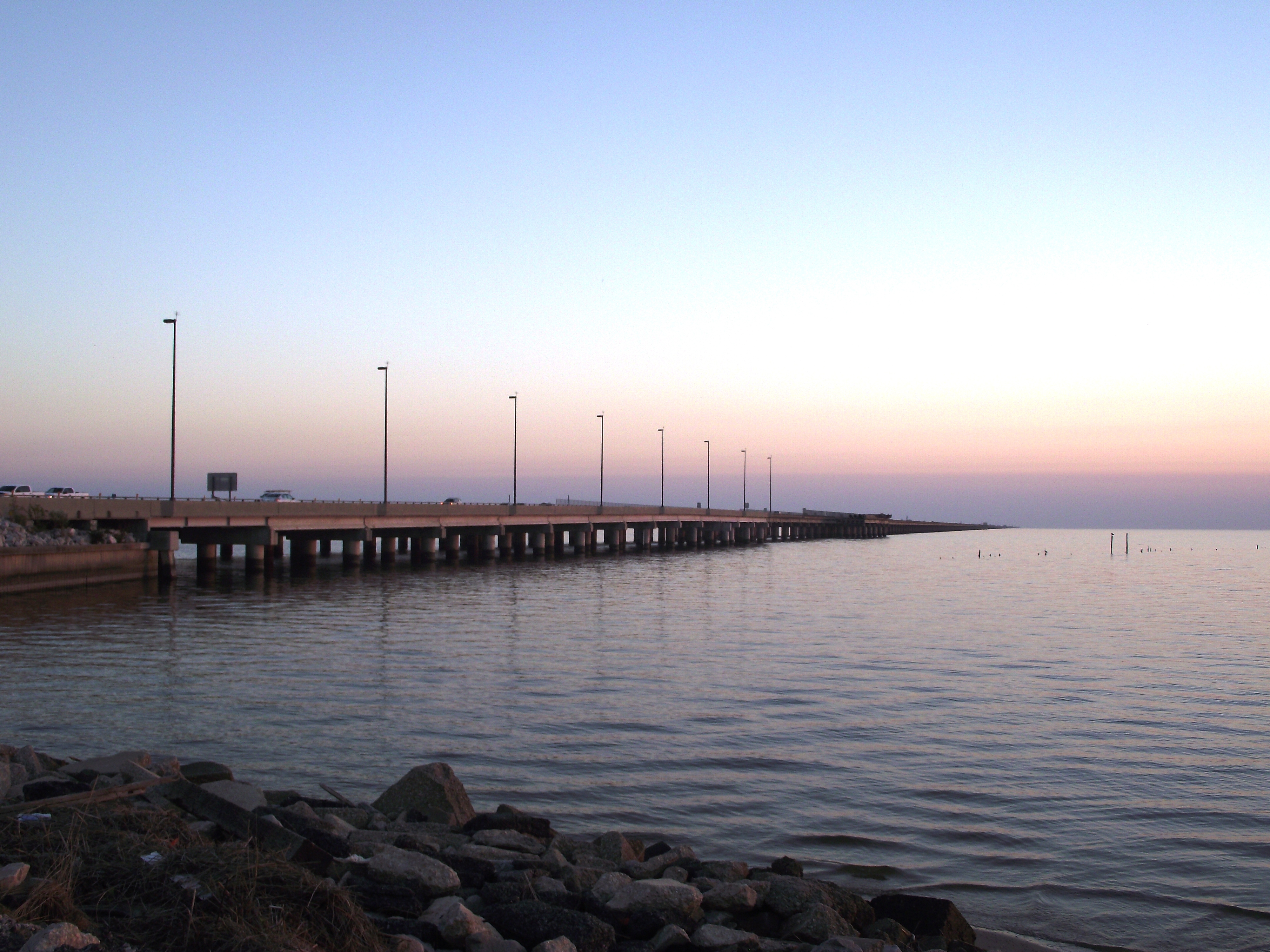 Lake Pontchatrain Causeway from southbound entrance